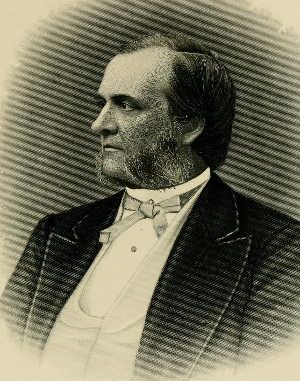 Portrait of William Baron Chapin Pearsons, lawyer, judge, legislator, fire chief, soldier and first mayor of Holyoke, Massachusetts.